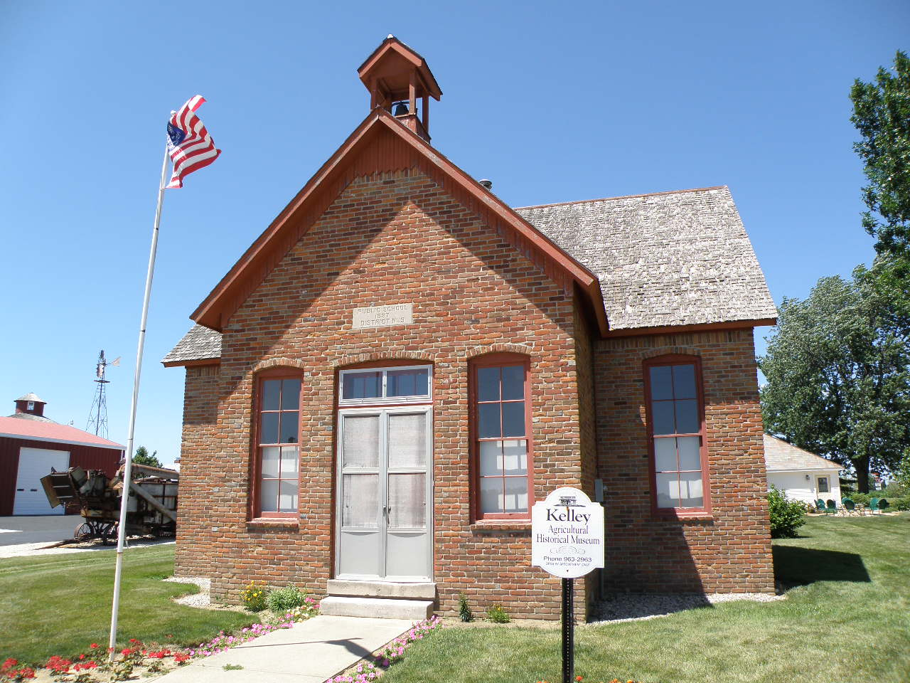 Kelley Historical Agricultural Museum ~ School House Kokomo Tribune Article